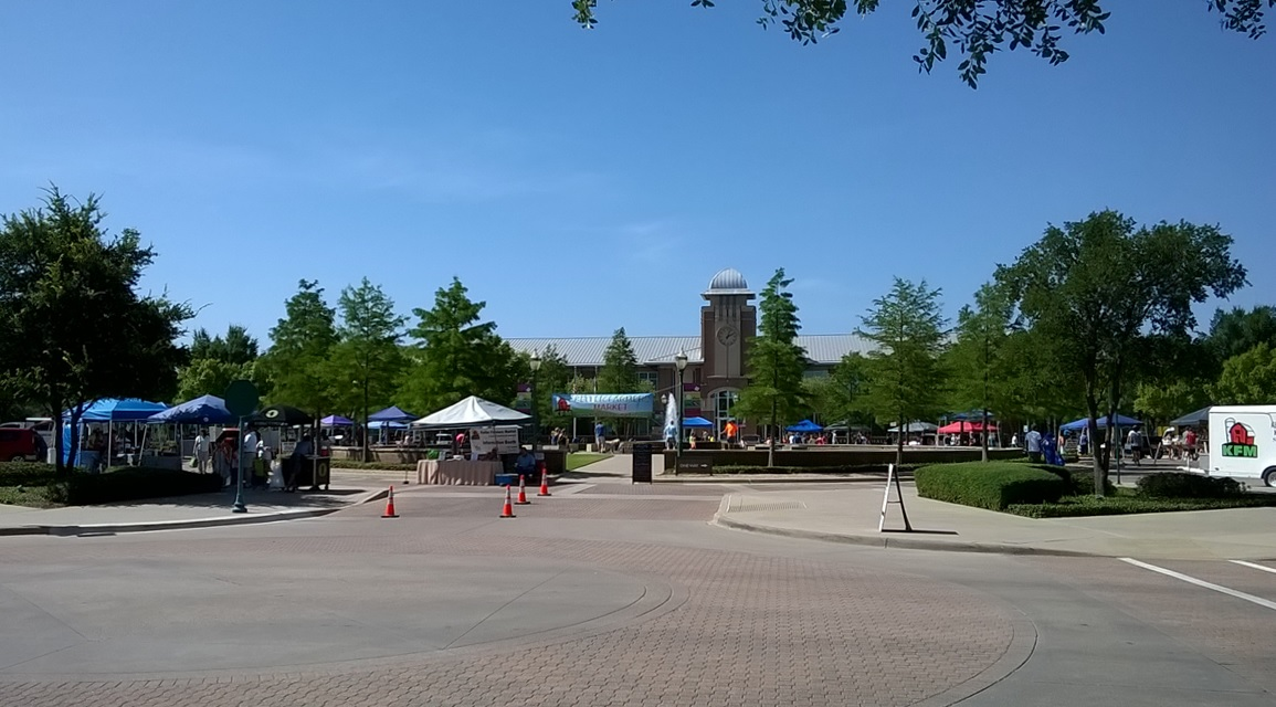 Saturday Farmers Market, Keller Texas